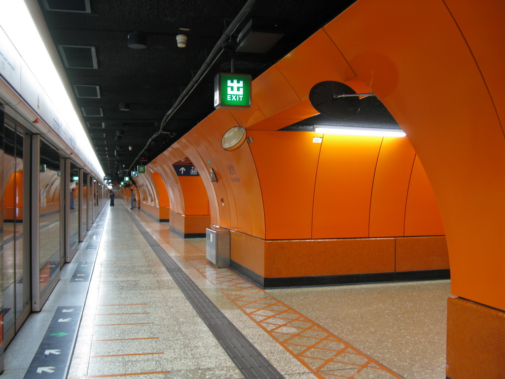 Island Line platform of MTR North Point station 中文（香港）: 港鐵北角站港島綫月台